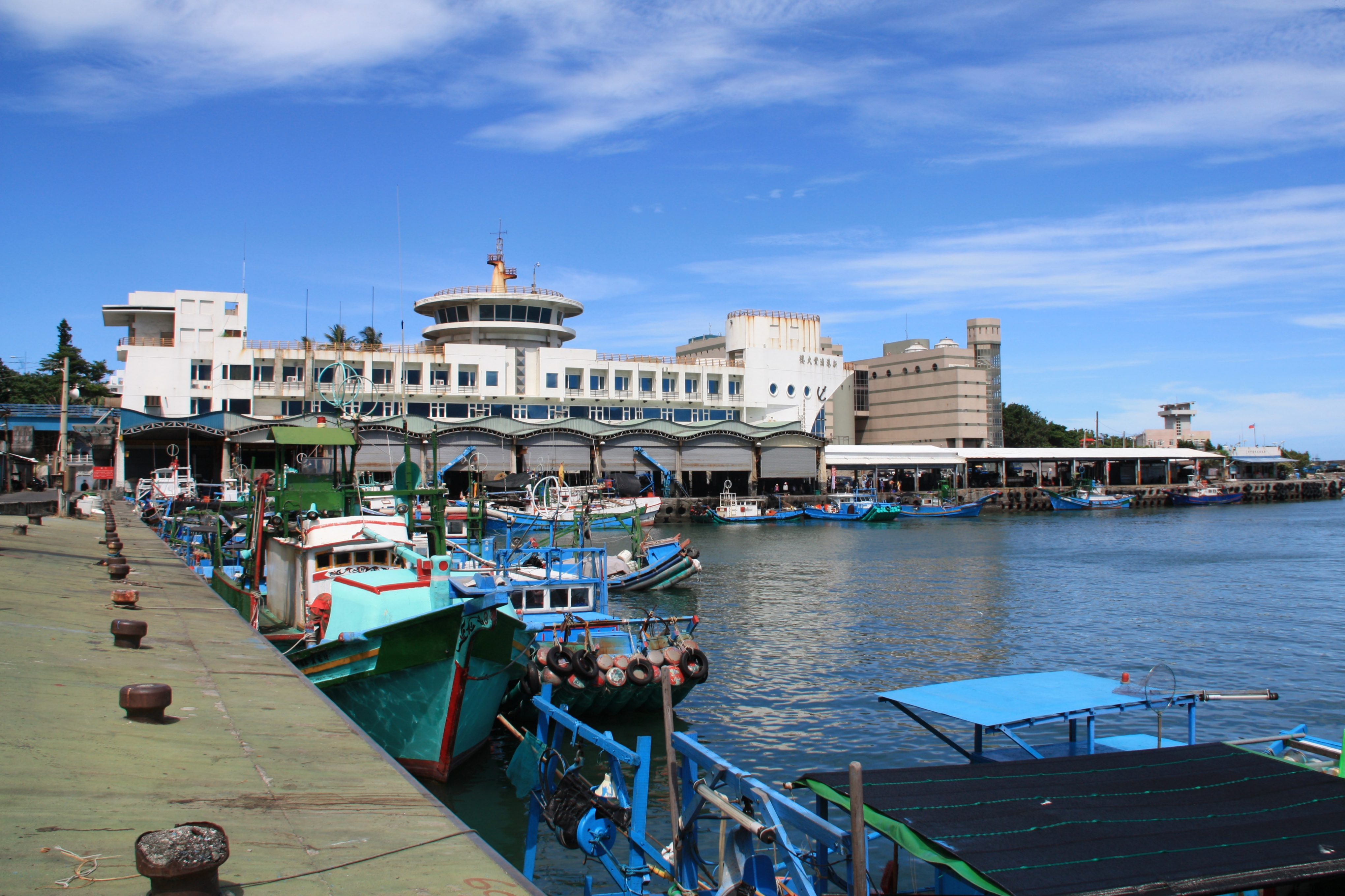 Taitung County Chenggong Chenggong Fishing Harbor